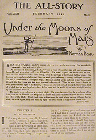 Original publication in serials of A Princess of Mars, under the title Under the moons of Mars by Edgar Rice Burroughs, All-Story Magazine, February 1912 (United States: Frank A. Munsey Co., 1912). As Burroughs was unsure whether he wanted to have his name associated with this kind of literature, he took the pen name of "Normal Bean", an attempt to suggest that despite the incredible nature of his story, he was still sane. The effect was spoiled when a typesetter changed "Normal" to "Norman" on the assumption that the former was a typographical error.